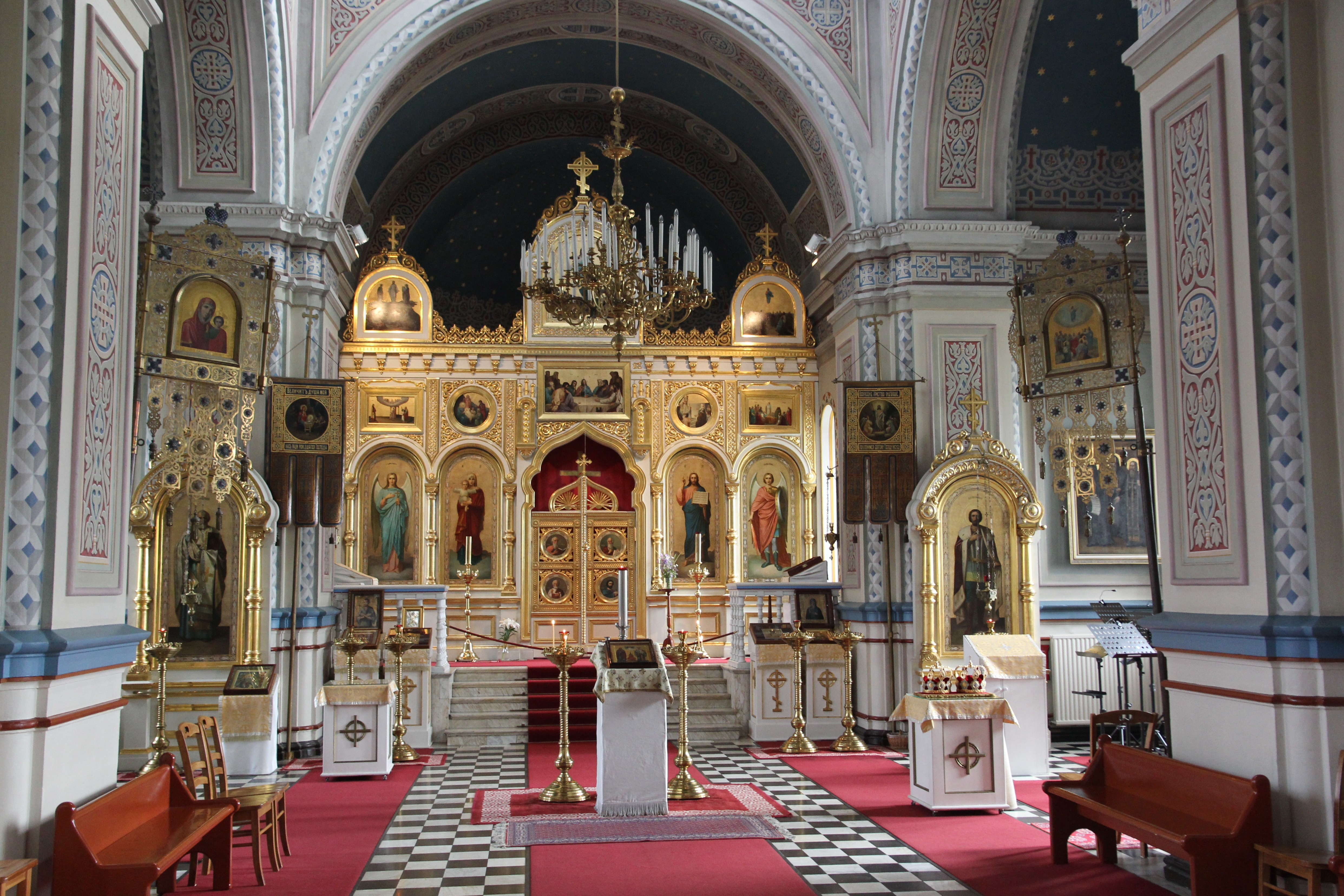 Tampere orthodox church interior.